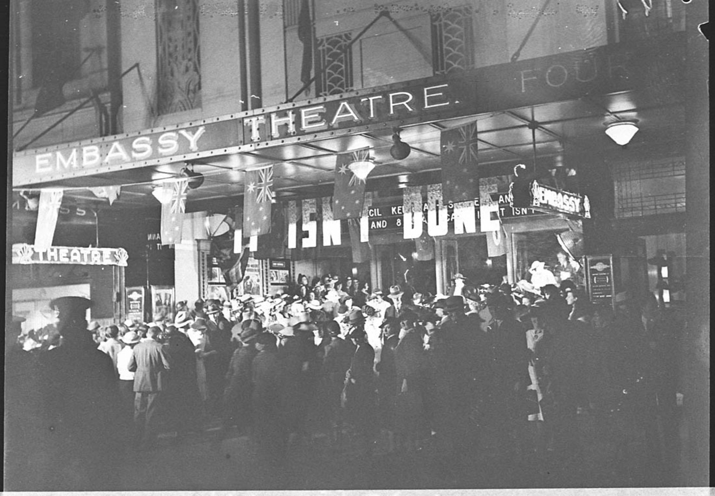 Premiere of It Isn't Done (1937), Embassy Theatre (taken for British Empire Films)